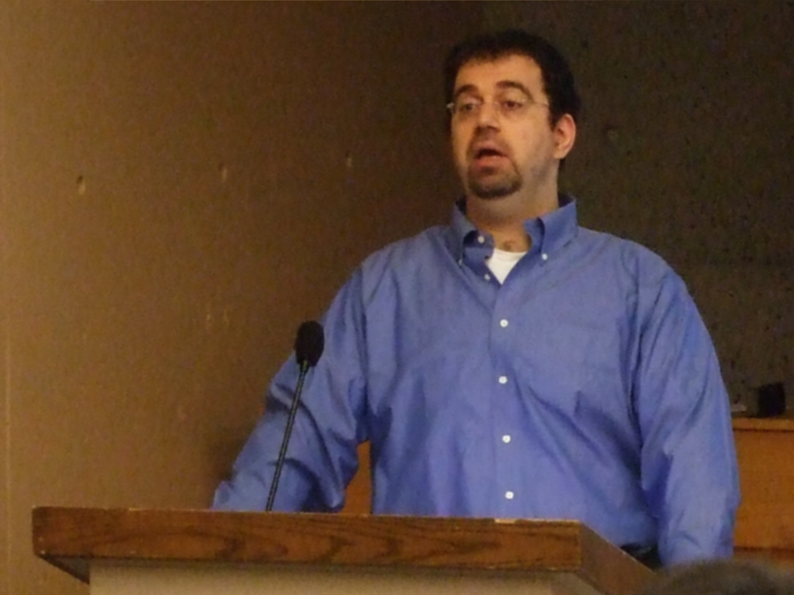 Professor Daron Acemoglu, Turkish-American economist.